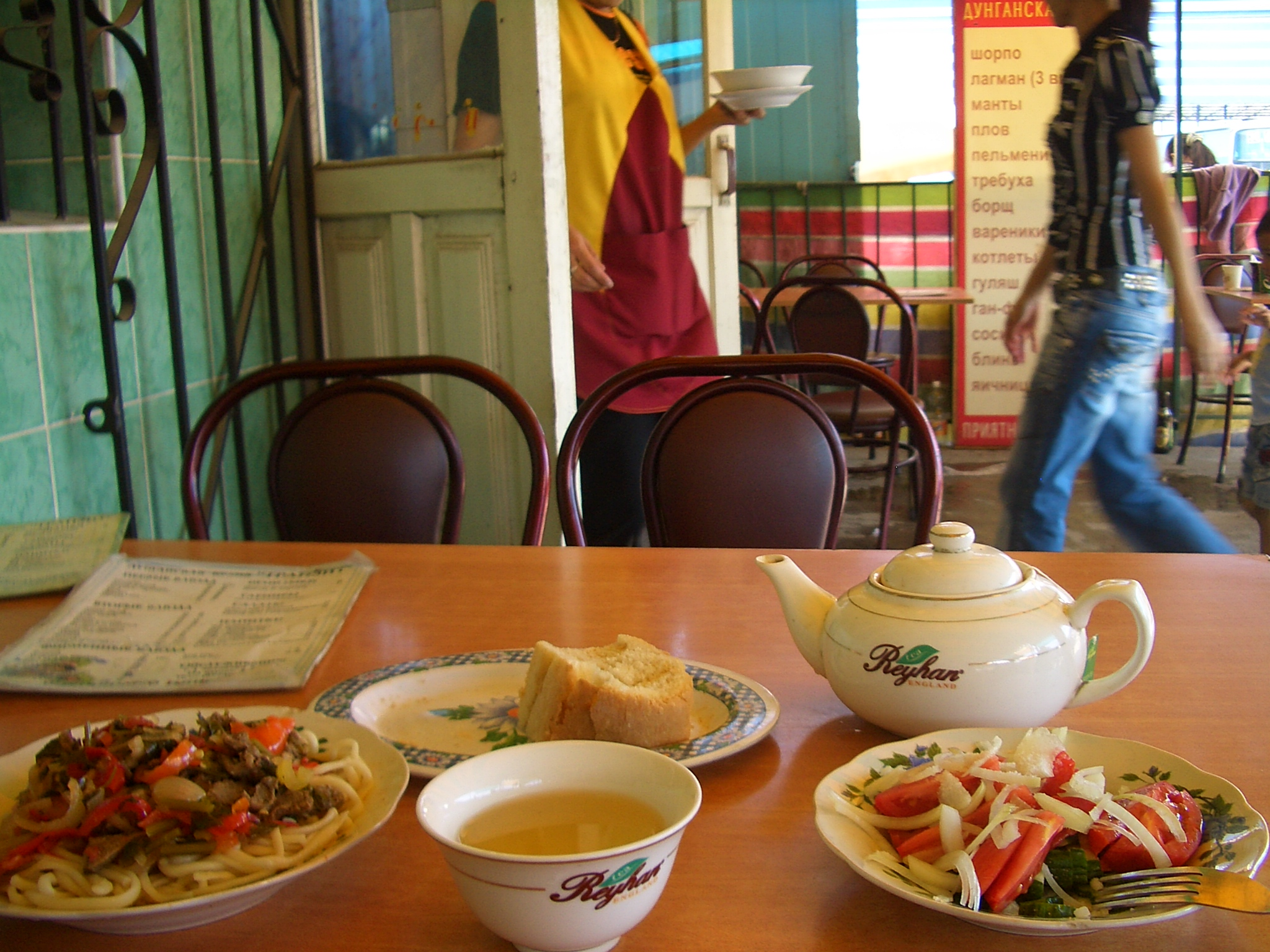 A simple meal at a small Dungan- (Huizu-)style restaurant in Dordoy Bazaar, Bishkek. Laghman (a noodle dish), salad, bread, and tea.